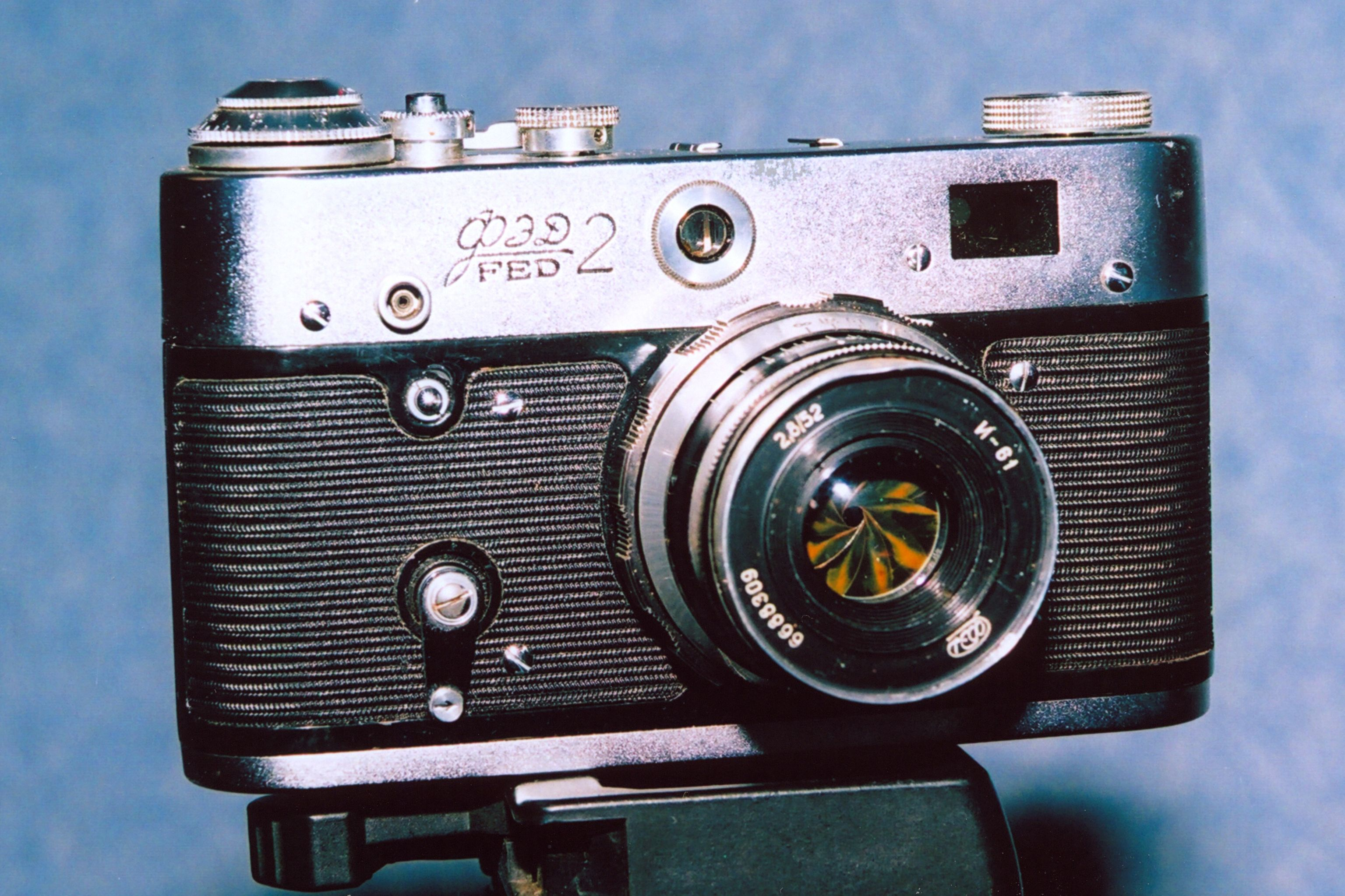 Фотоаппарат ФЭД-2 курковый, четвертый выпуск